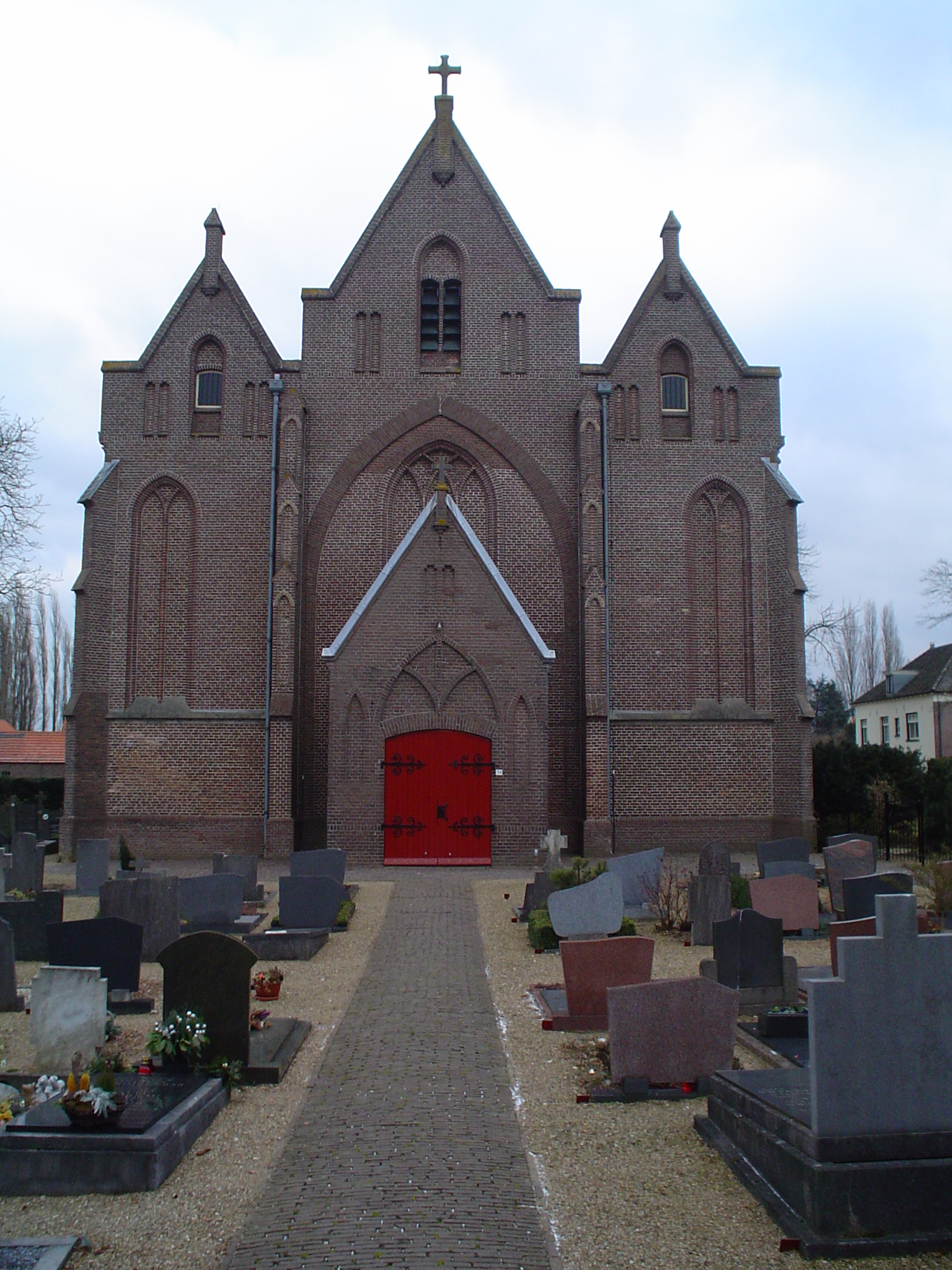 Antonius Abtkerk - Loo, The Netherlands